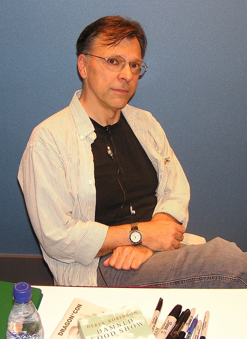 Howard Chaykin at Dragon Con 2005.